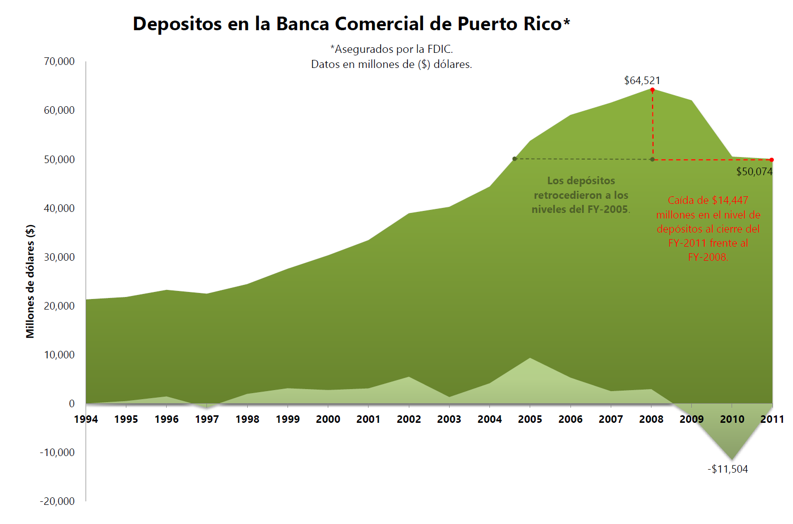 Total Deposits in FDIC's insured institutions, time series. State: Puerto Rico. As June 30, 2011.